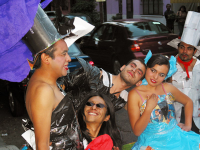 Rainbow on Fire exhibition at Garros Galería